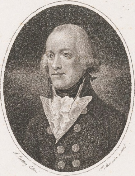 John Watts (1755-1801) SHELLEY, S. engraved by W. SHERWIN. London: Stockdale, 8 December, 1789. Stipple engraving, 230 x 180 mm. (plate size) Engraved portrait of John Watts, veteran of Cook's third voyage, who sailed with the First Fleet on board Lady Penrhyn. Although published by Stockdale and intended to be included in Governor Phillip's account of New South Wales, it is only rarely seen in the first edition because it was issued too late to be included in most copies (Phillip's account was officially published on 3 December 1789, while this portrait is dated 8 December).